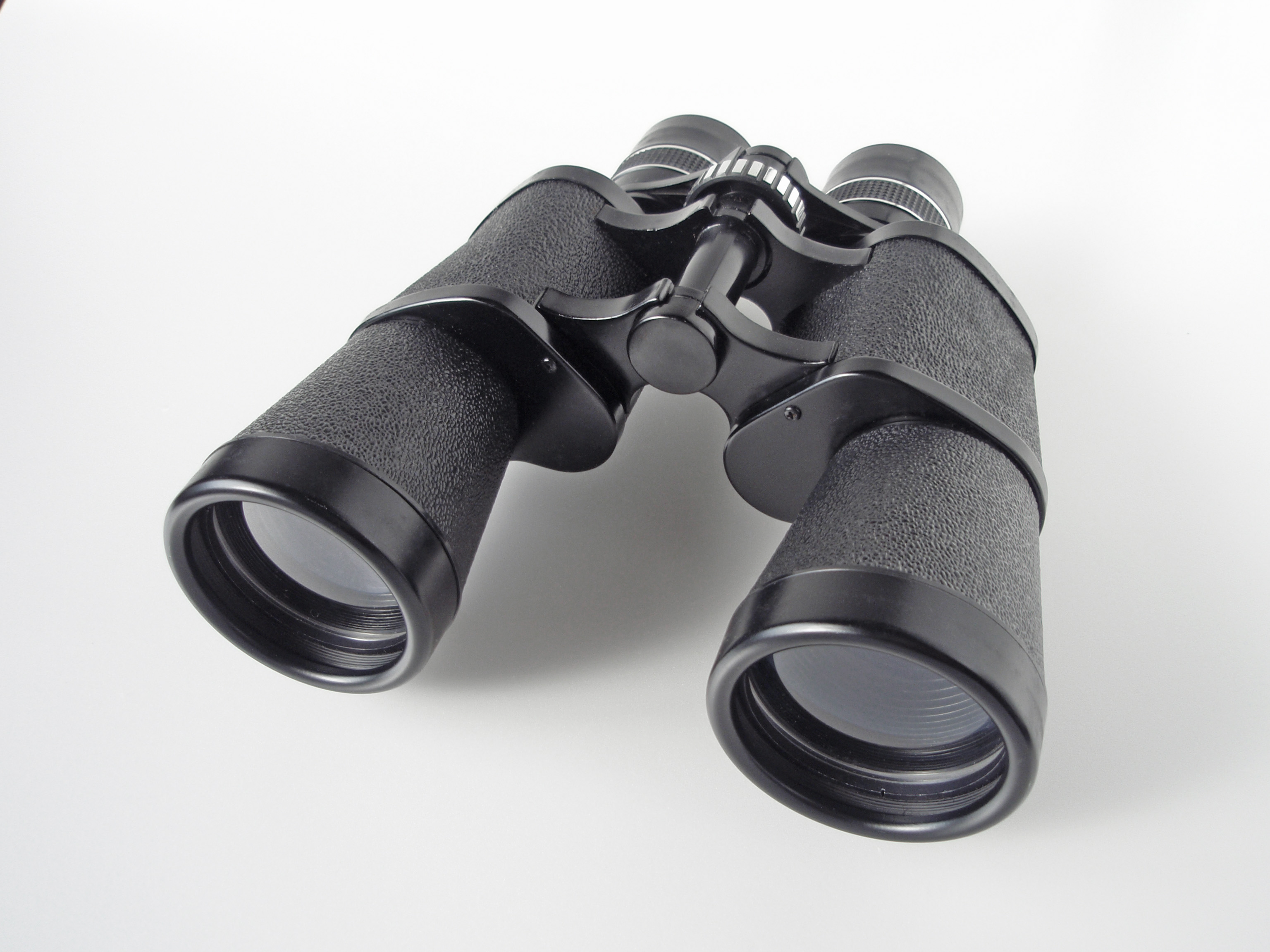 Binocular